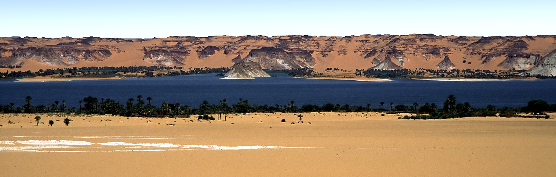 Ounianga Serir lake, Chad